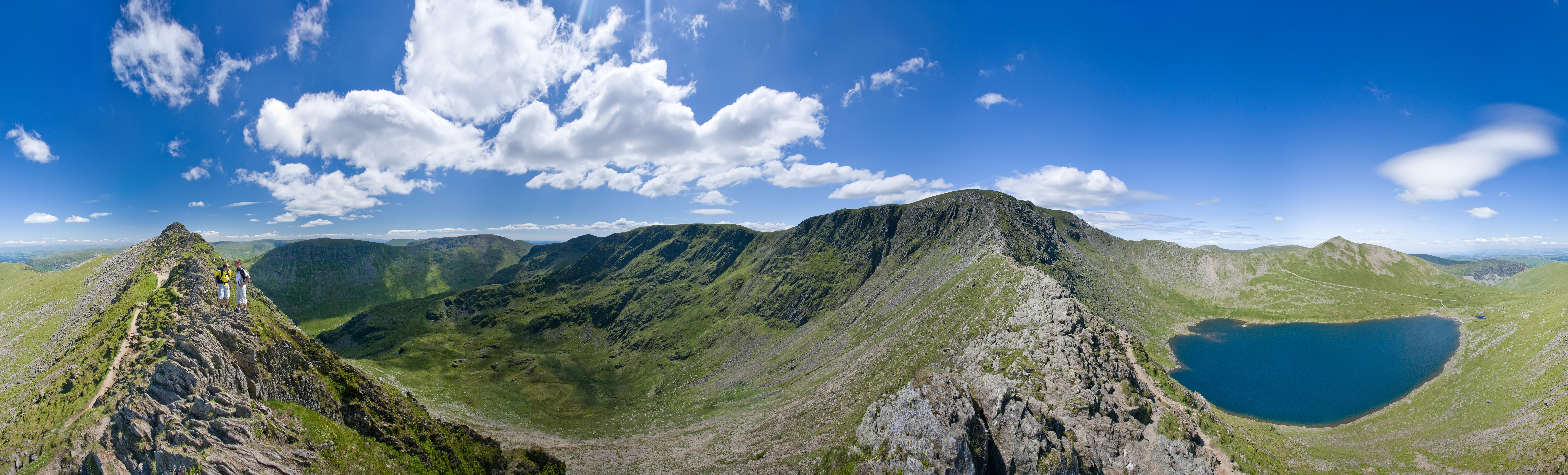 A 360 degree view from the middle of 'striding edge' near the summit of Helvellyn in the Lake District. Helvellyn is the tallest summit just to the right of centre. Red Tarn is the small lake on the right, Catstye Cam is the fell directly behind Red Tarn, and Ullswater and the village of Glenridding is visible on the horizon along the far left corner.